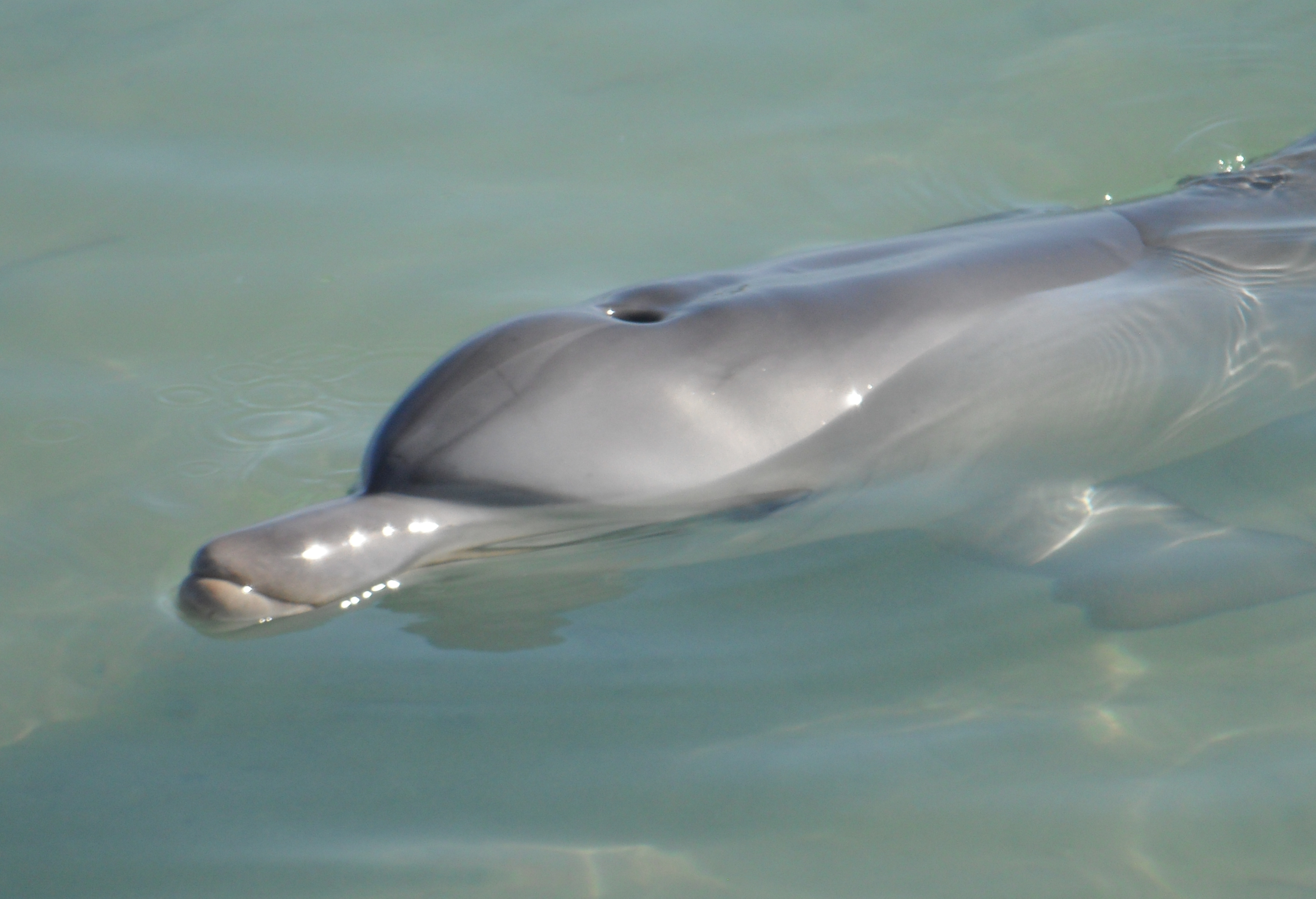 Indo-Pacific bottlenose dolphin (Tursiops aduncus) in Monkey Mia